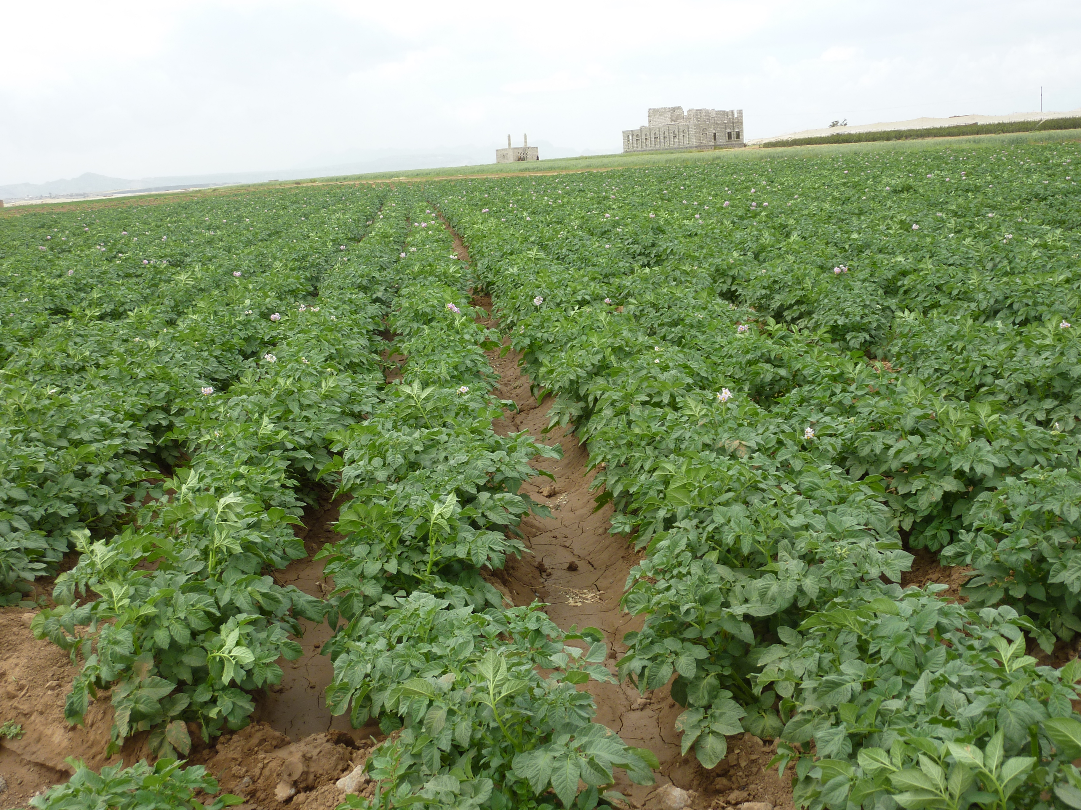 Potato field in Dhamar, Yemen